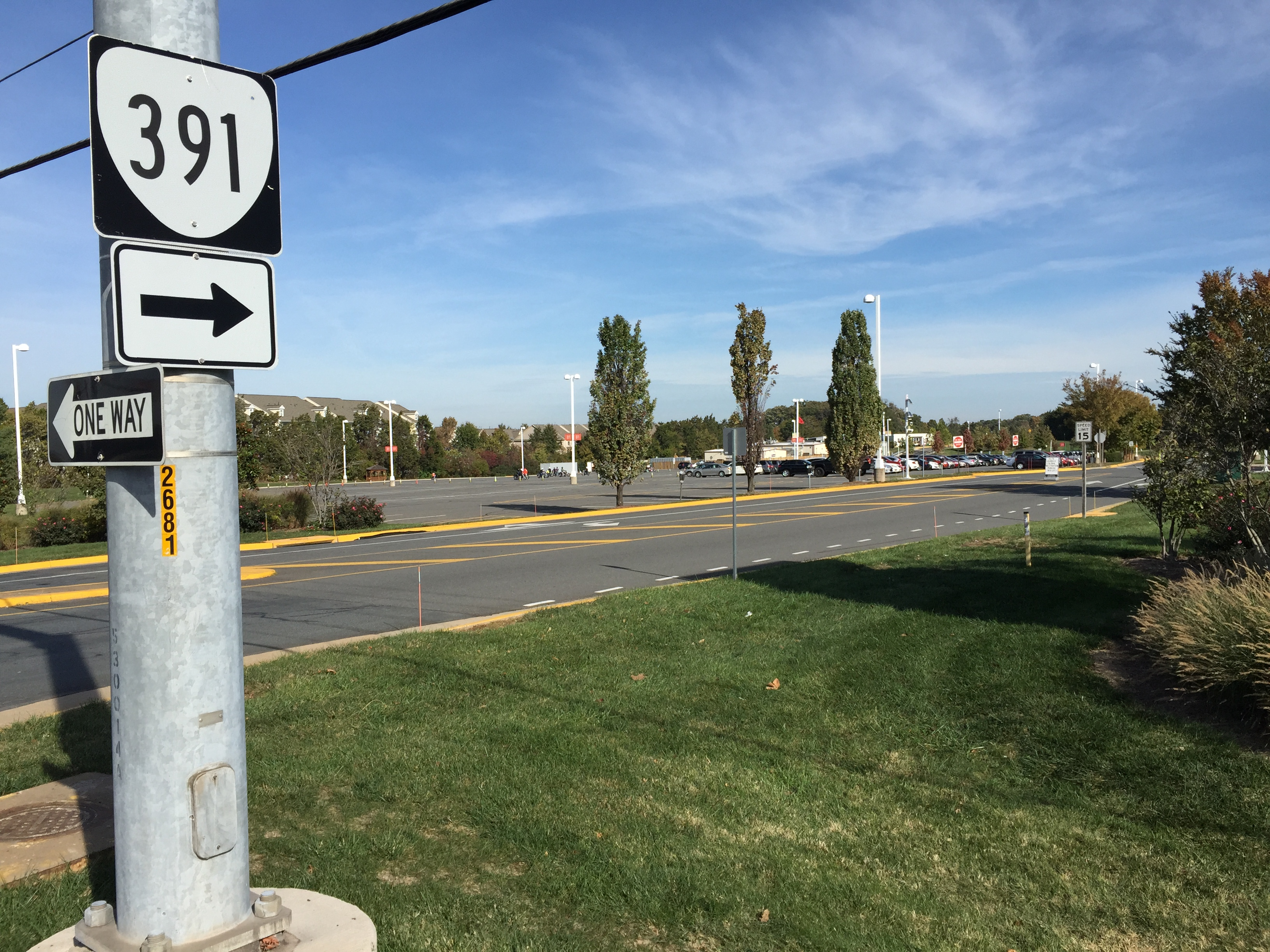 View north along Virginia State Route 391 (Campus Drive) at Virginia State Route 7 (Harry Byrd Highway) on the campus of the Northern Virginia Community College - Loudoun Campus in Cascades, Loudoun County, Virginia